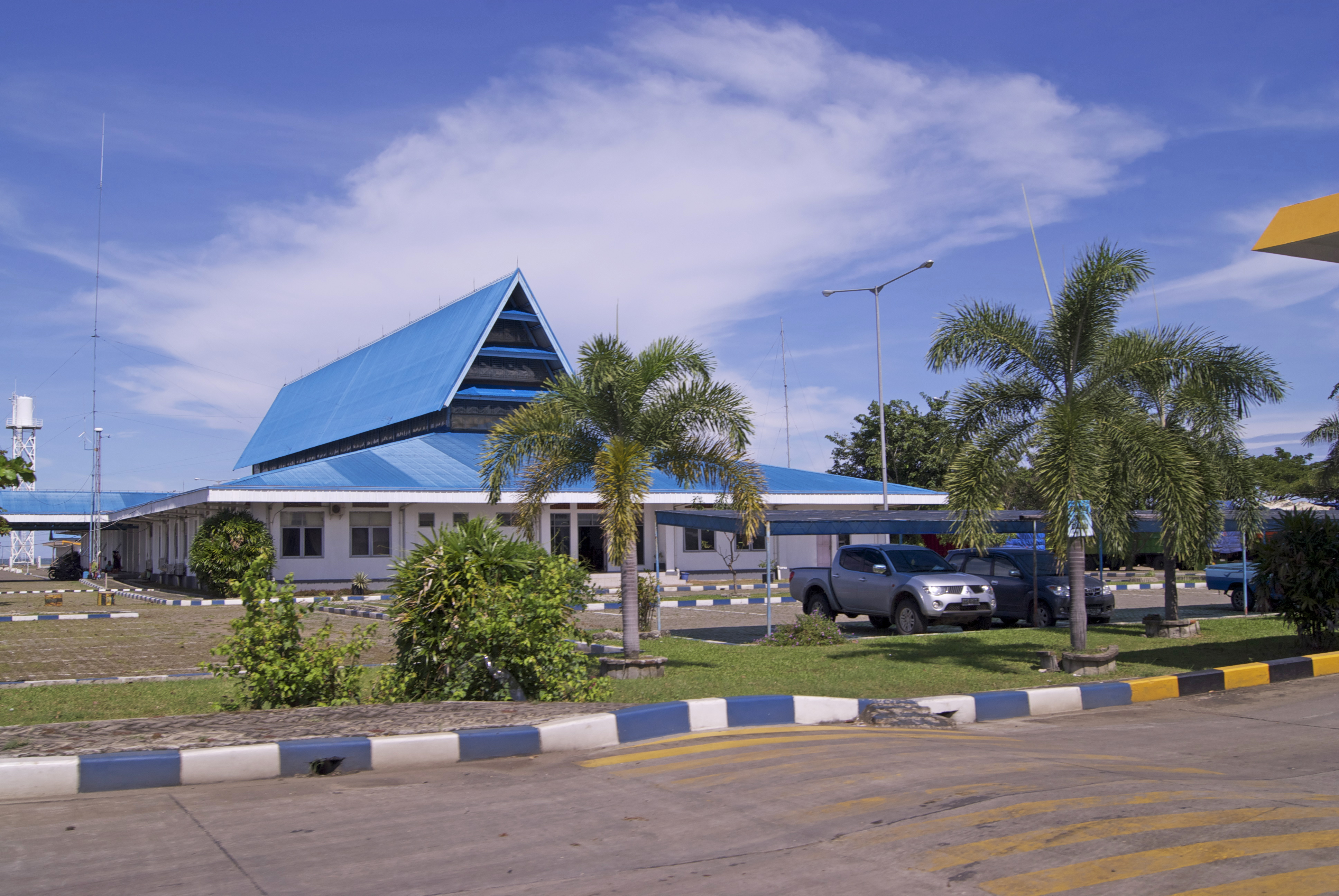 Port of Bajoe, Bone, South Sulawesi, Indonesia